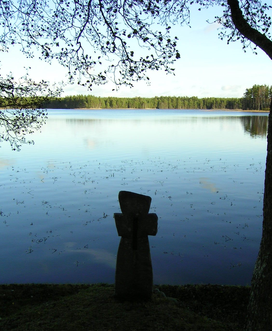 A stone cross by the lake Fängen in Vaggeryd municipality, Sweden